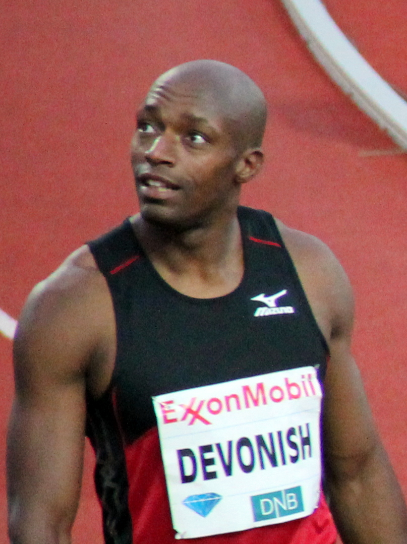 Marlon Devonish at the 2012 Bislett Games